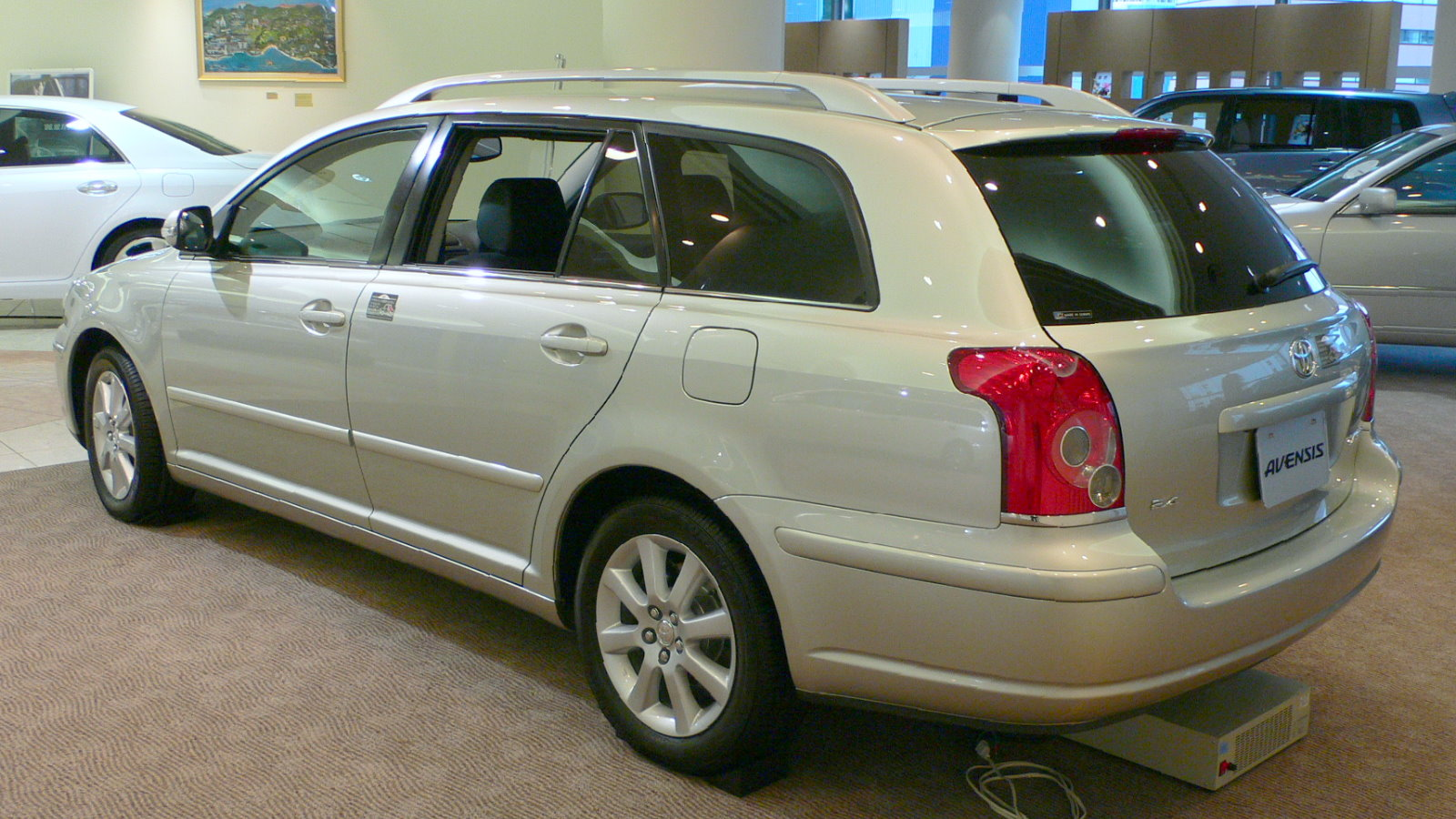 2nd generation Toyota_Avensis(2006) taken at Showroom of Toyota-AMLUX